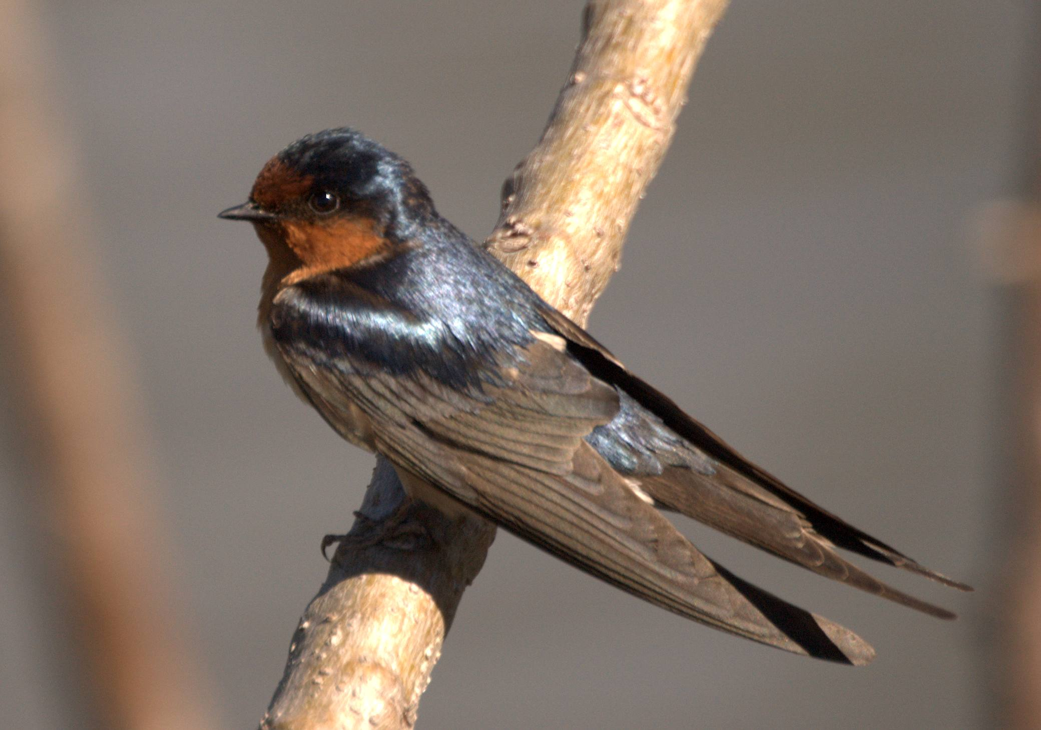 Welcome Swallow (Hirundo neoxena) Sherwood, SE Queensland, Australia